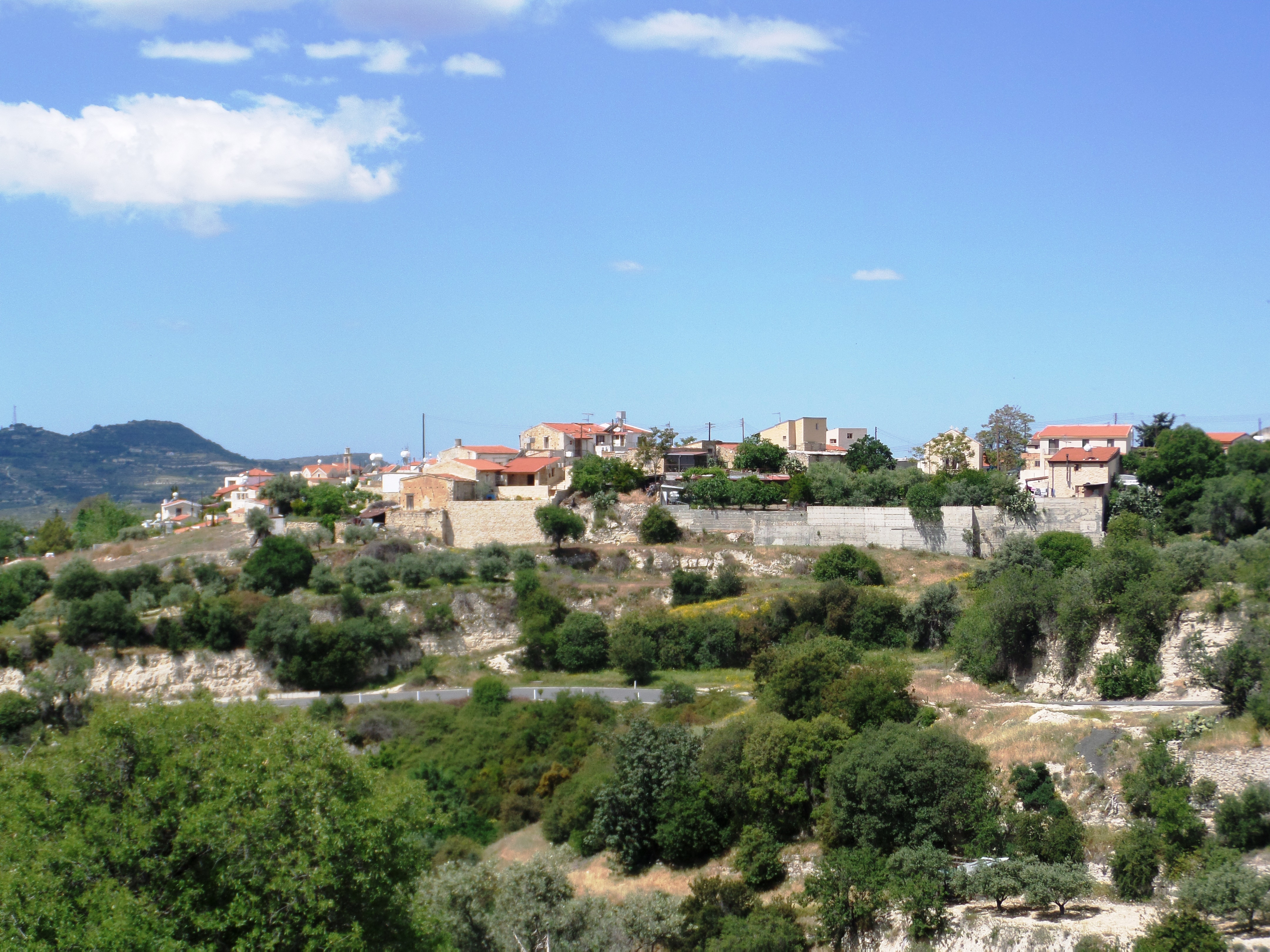 View of Agios Therapon.